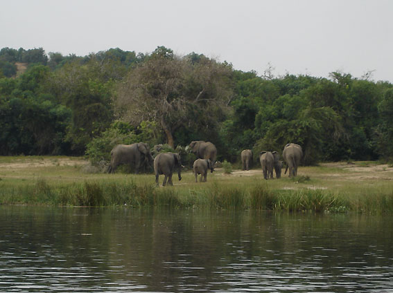 Uganda, Murchison Falls, herd of elephants seen from the boat on the trip to the Murchison Falls